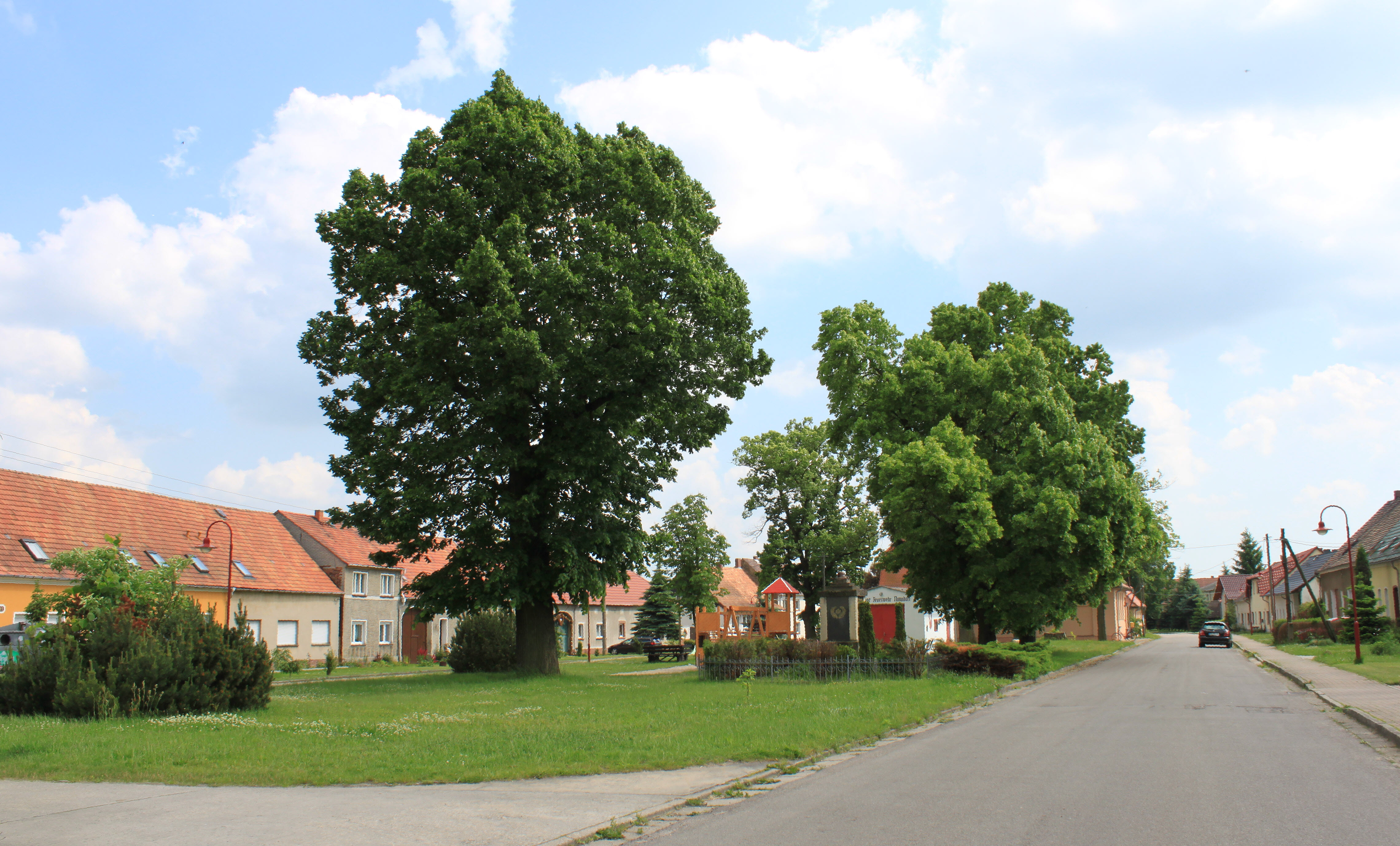 Naundorf center